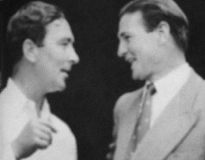 Denis Compton and Keith Miller